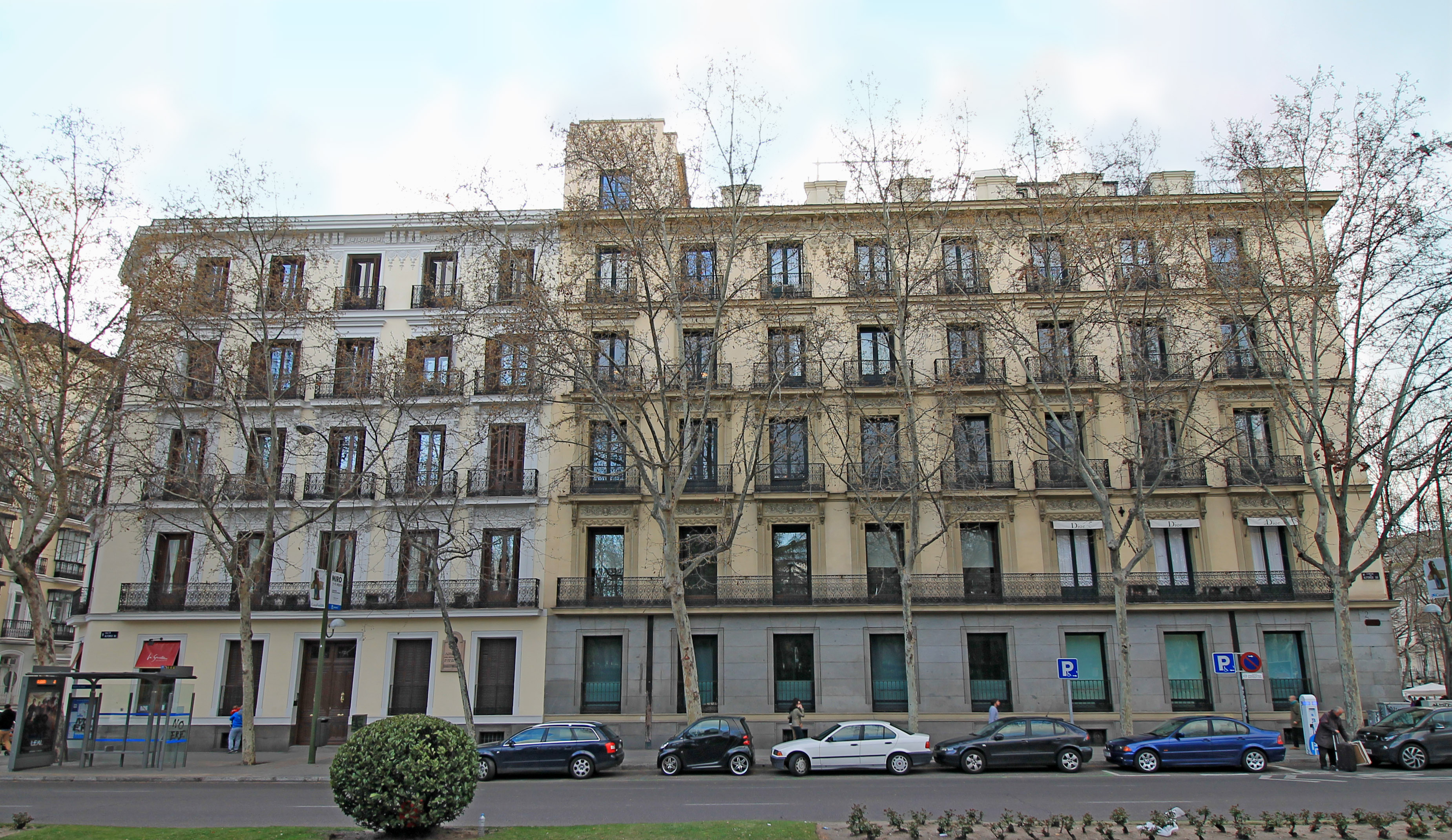 East façade of Casas Salabert in Madrid (Spain).